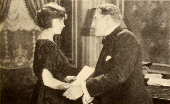 Still from the American silent film The Inner Chamber (1921) with Alice Joyce and Holmes Herbert, page 59 of the October 1921 Photoplay.